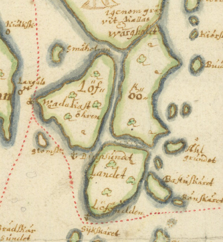 Part of Johan Persson Gedda's map of Umeå parish from 1661. The picture shows Lövölandet, where Holmsund now is located.